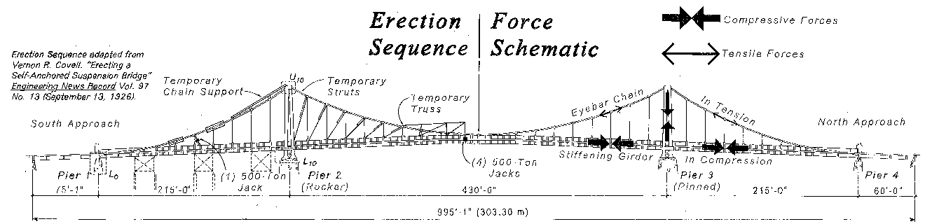 Erection Sequence and Force Diagram, Three Sisters Bridges, from HAER. Reduced from original TIF file found here [1] and then edited to remove non erection sequence/force diagram material, rearrange some text and convert to .png which I believe, does not change the public domain status of the image (but in case my changes to it require license I hereby release back to PD, see below) Original Image Drawing 2 of 8, Reuse or reproduction requests credit to original draftsmen, to wit: "Delineated by Julie A. Maleeva, James P. Hanley, & Susan H. Gordon, 1998, Thomas M. Behrens, 1999"